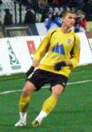 Serhiy Pylypchuk, Ukrainian footballer, during the game for FC Khimki